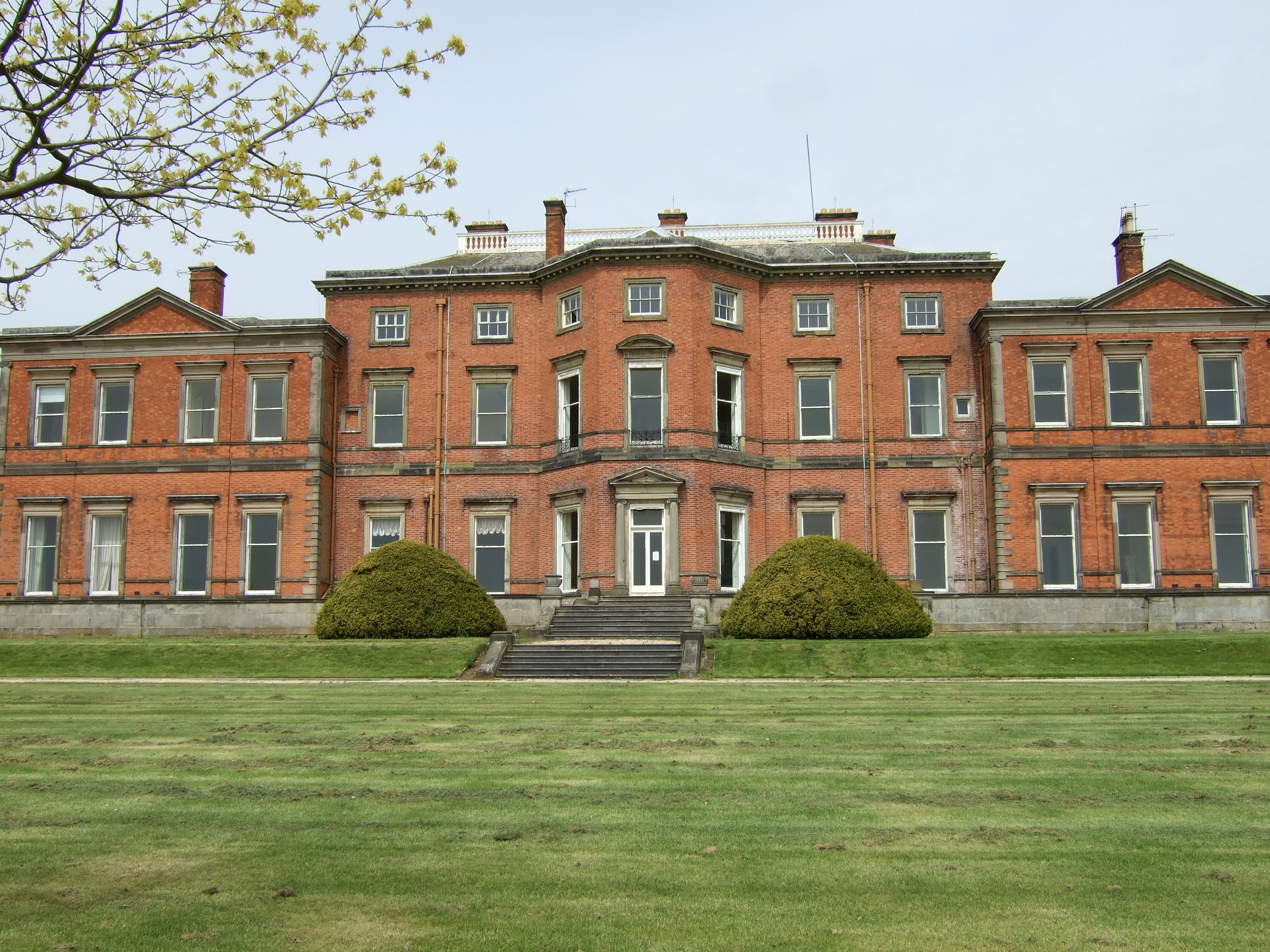 Stanford Hall Nottinghamshire. Rear view